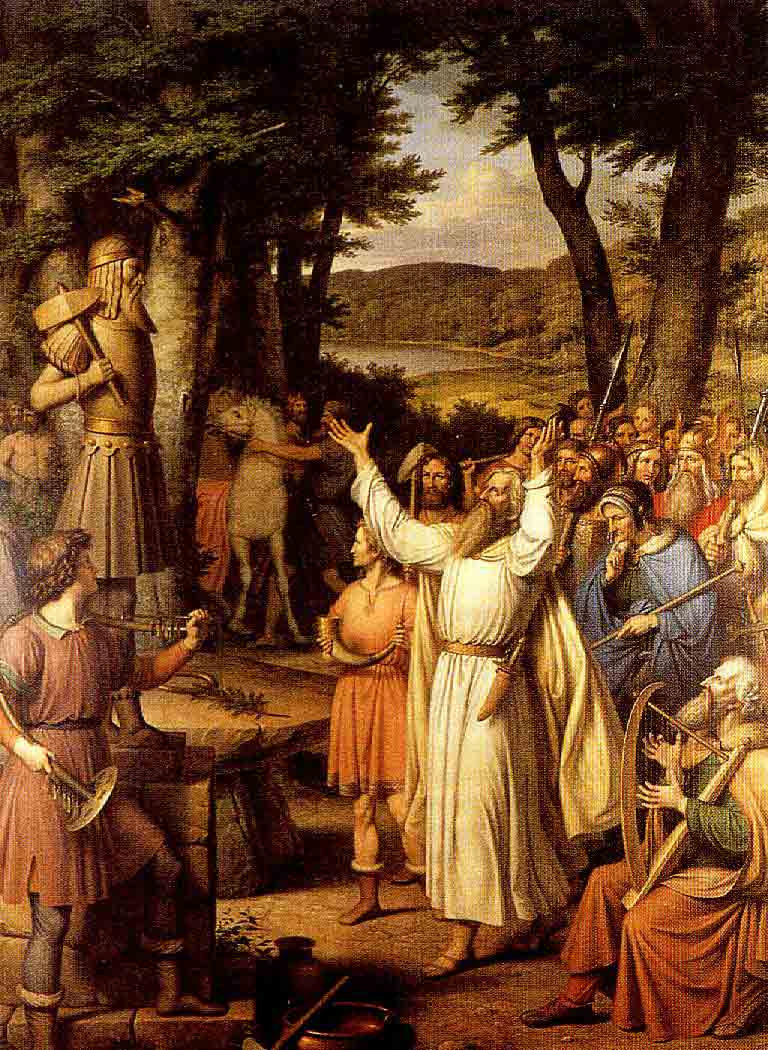 A sacrifice to Thor.Category:Images from Norse mythology